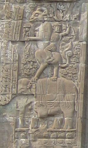 Elephant surmounted by a youth riding a mythical creature on the left side of the south arch of the Cloud Platform at Juyongguan, Beijing, China.